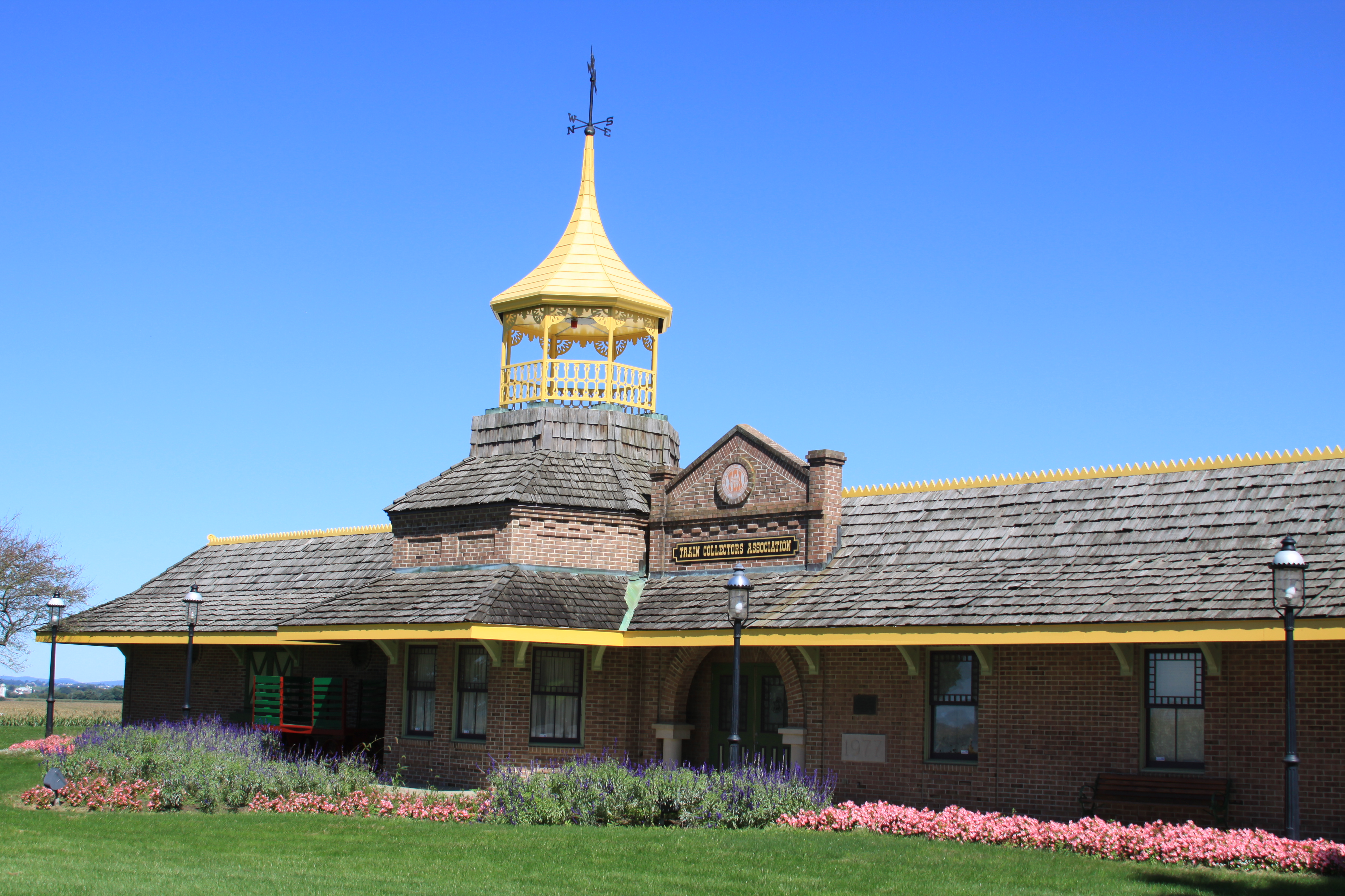 National Toy Train Museum in Strasburg, Pennsylvania, USA. This building is also home to the Toy Train Reference Library.